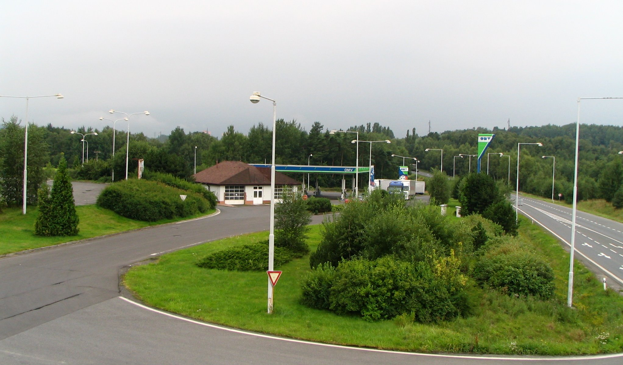 OMV near Sokolov in Czech republic.